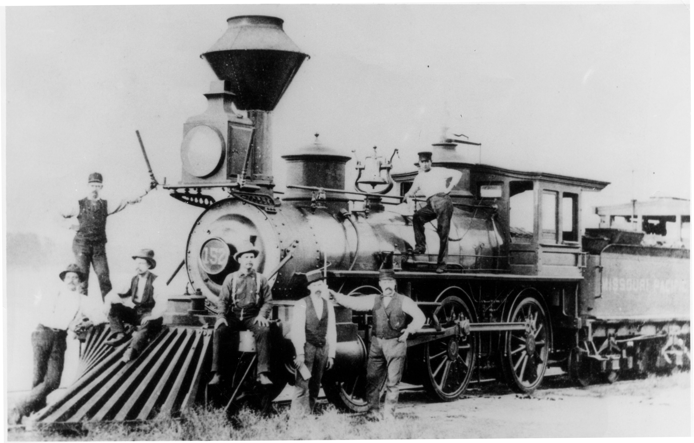 Collection Name: Historic Blue Book Collection Photographer/Studio: Unknown Description: Men pose next to steam train locomotive. Coverage: United States - Missouri Date: not dated Rights: Copyright is in the public domain. Credit: Courtesy of Missouri State Archives Image Number: RG005_77_27_0714 Institution: Missouri State Archives